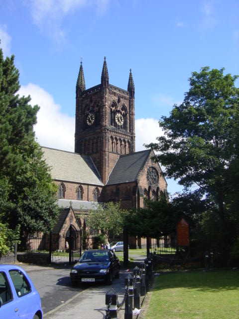 St Mary's Church, West Derby. West Derby's present parish church, built in 1853/4 to the design of Gilbert G. Scott, took the place of the ancient Chapel of St Mary the Virgin which stood in the village centre. The Heywood Monument marks its altar site.